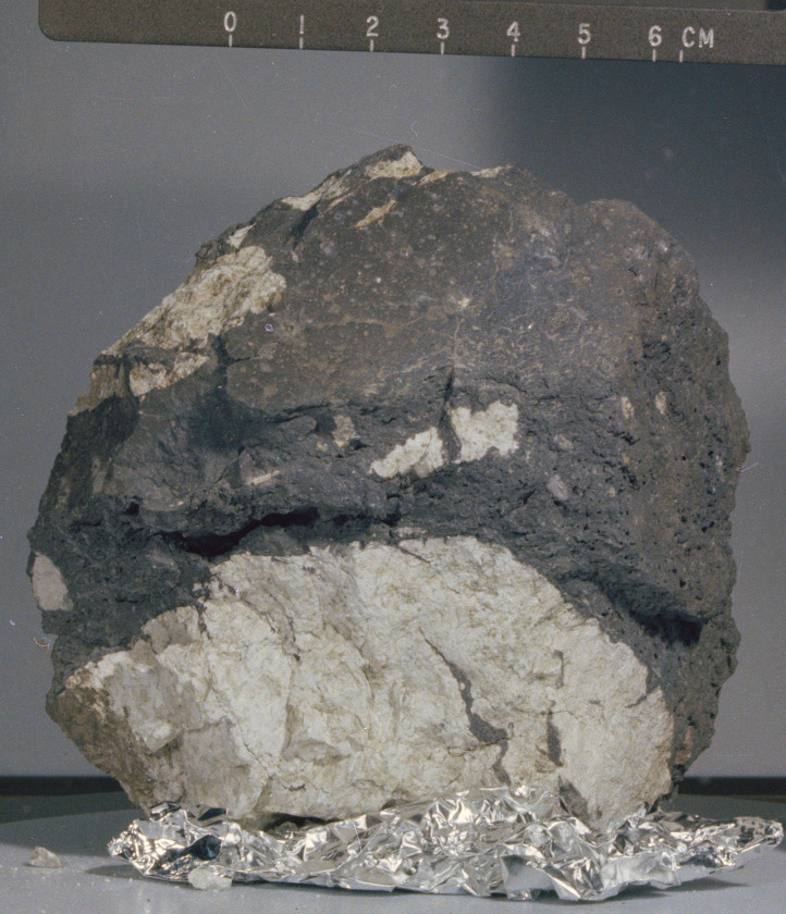 Breccia, Apollo 15 lunar sample 15455, collected at Spur crater (Station 7) on the moon. Scale bar at top is in cm.